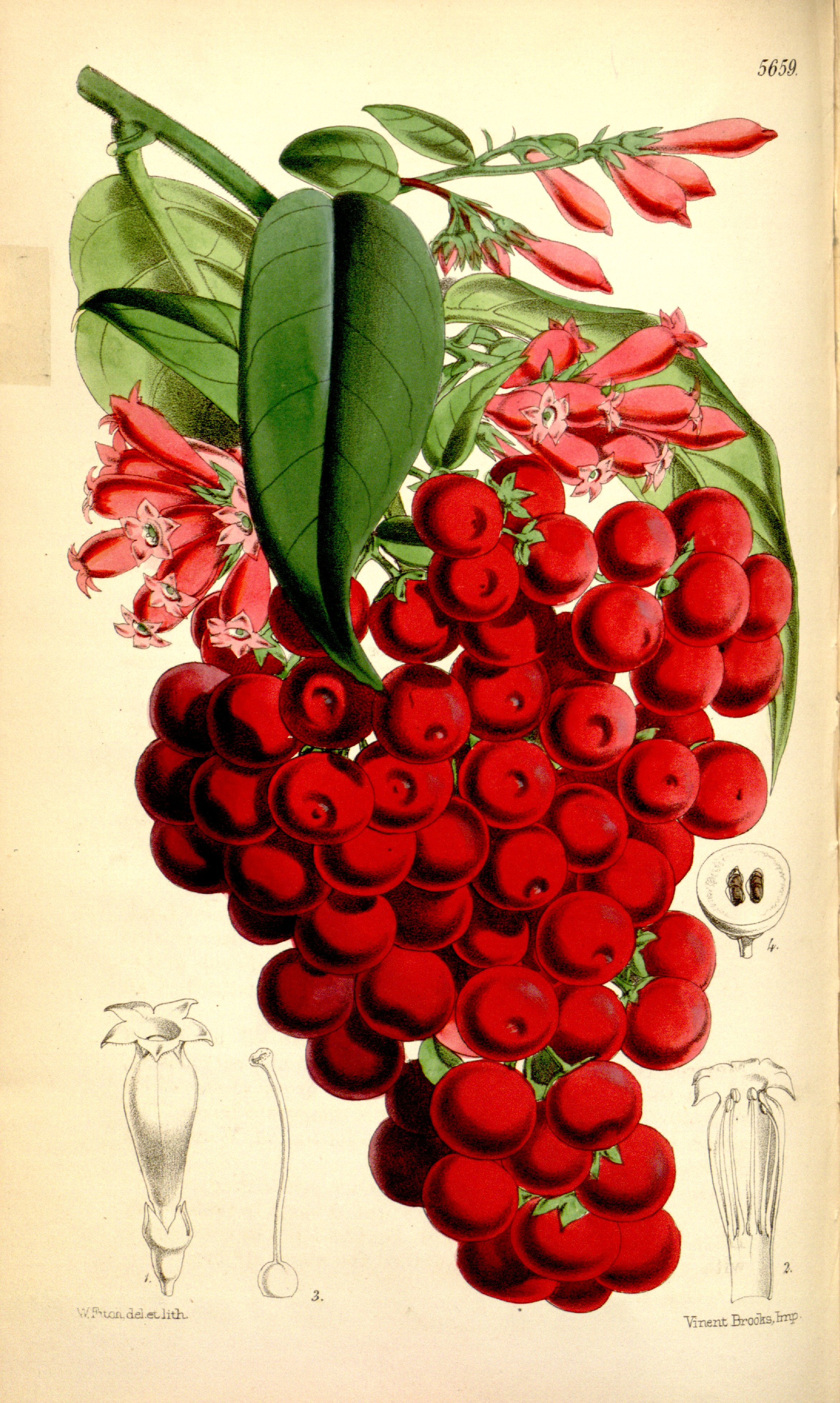 Cestrum elegans